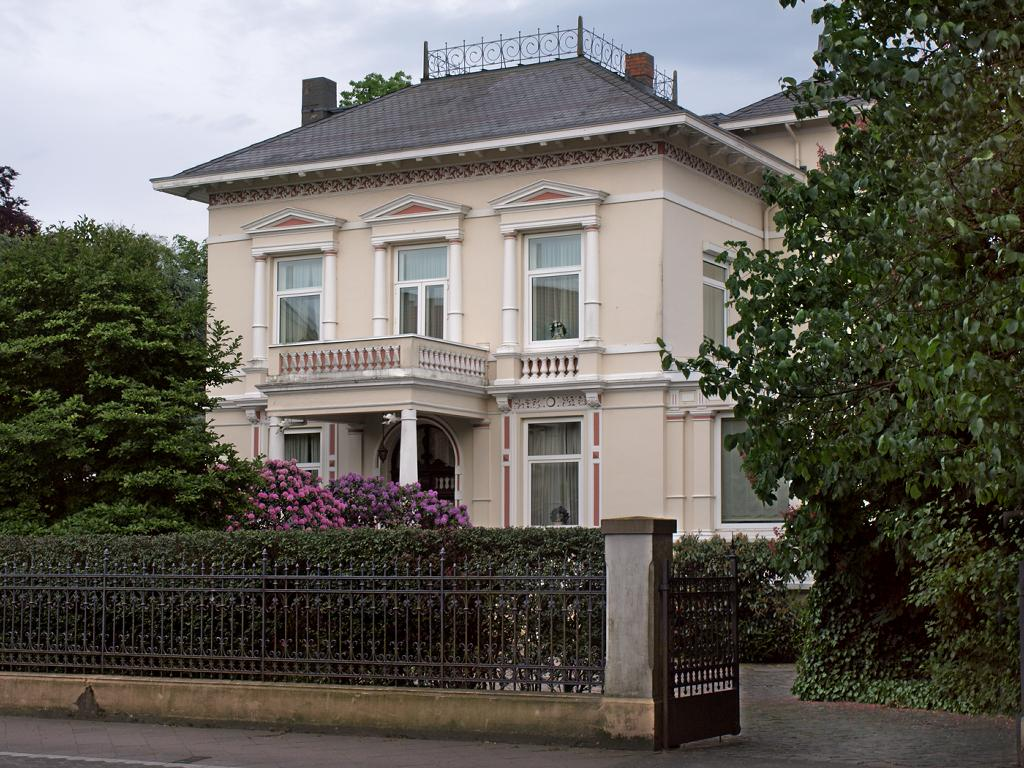 Uetersen (Germany), villa of Guerle , photo 2008